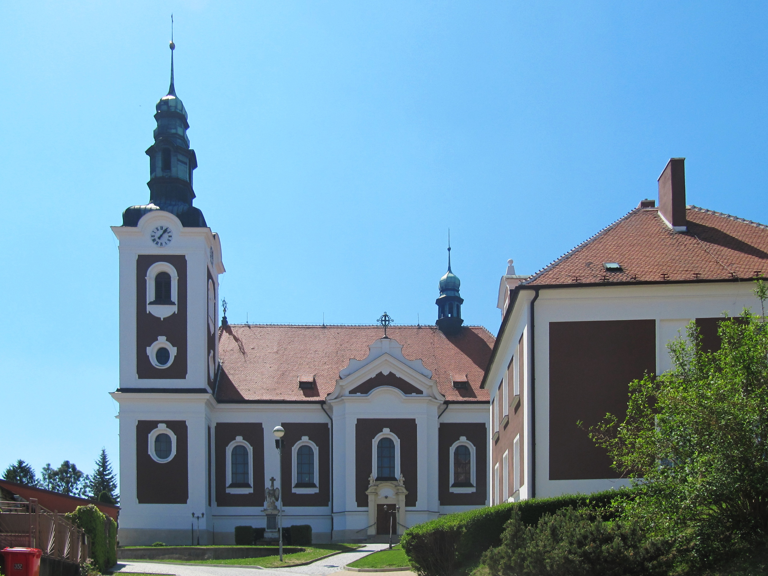 Vnorovy in Hodonín District, Czech Republic. Church.